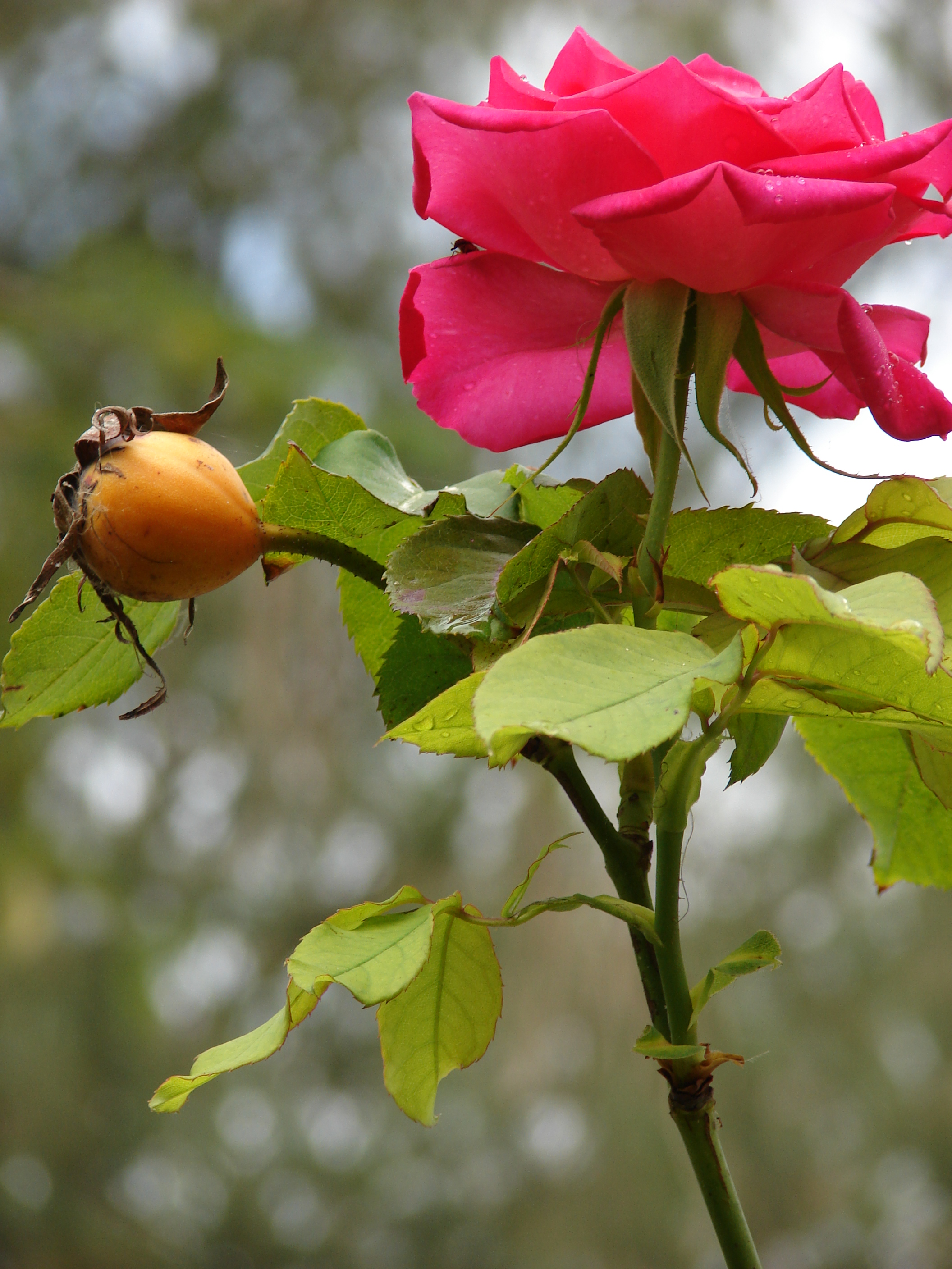 Rosa sp. (flower). Location: Midway Atoll, 4208 Commodore Ave Sand Island